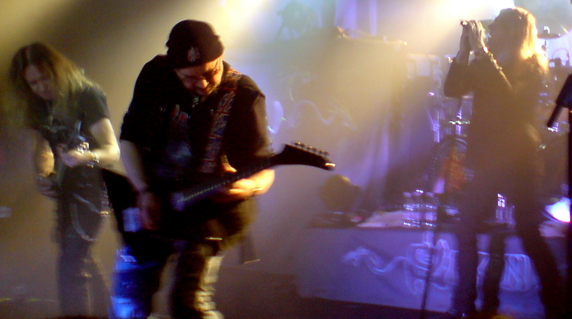 English heavy metal band Saxon performing at the Ljubljana, 2009.